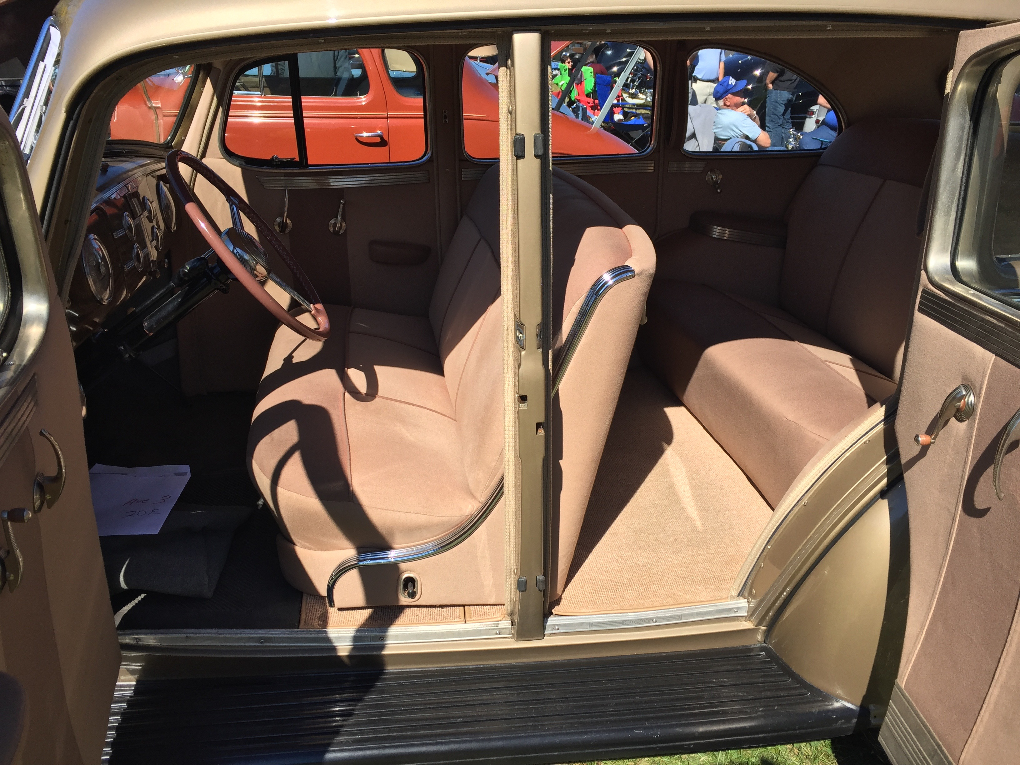 1938 Hudson four-door sedan. This model features a 112-inch wheelbase and a 175-cubic-inch L-head straight six-cylinder engine. Picture taken on the show field of the Antique Automobile Club of America (AACA) 2015 Hershey meet that is held every October in Pennsylvania.